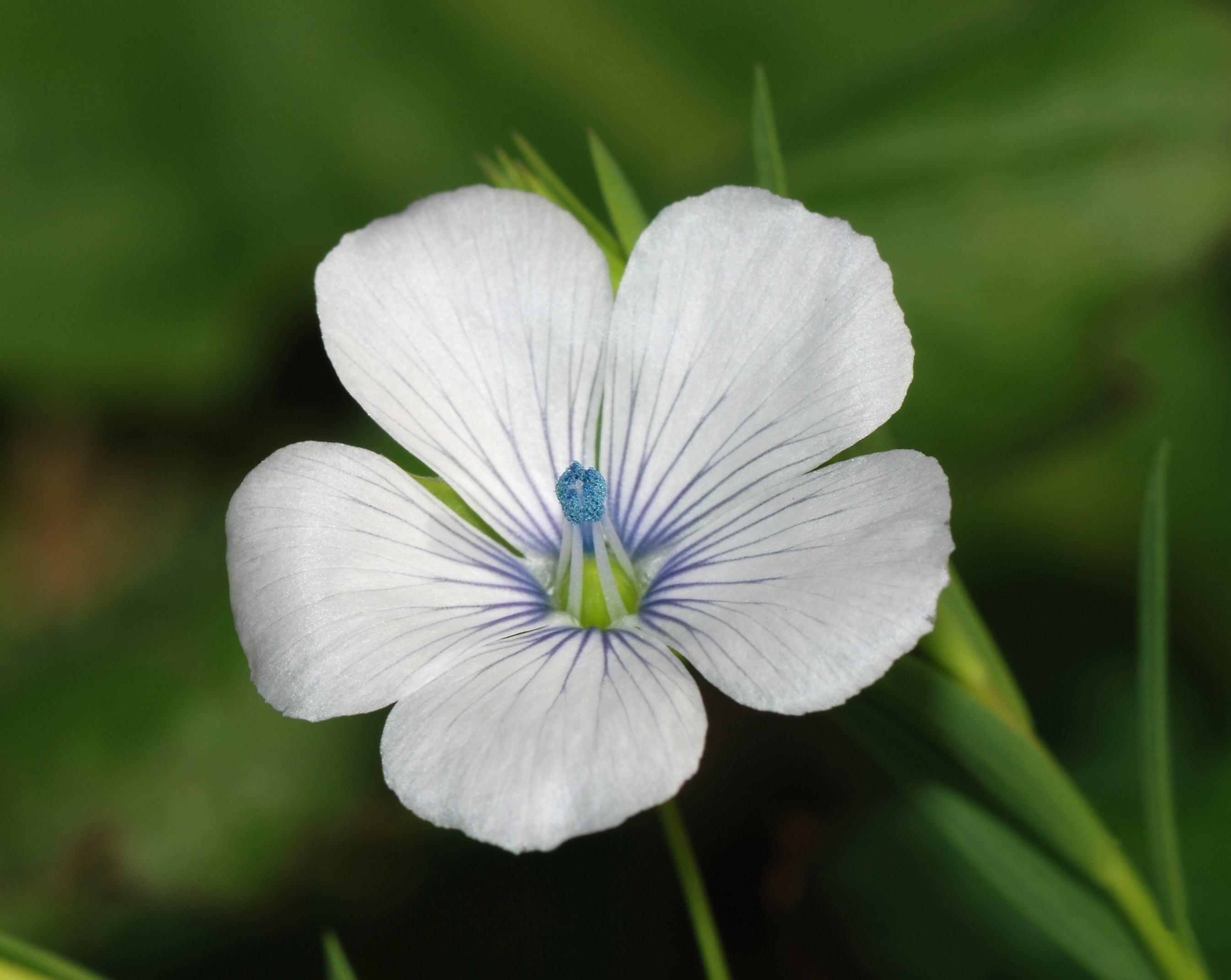 Linum bienne (Pale Flax) flower.